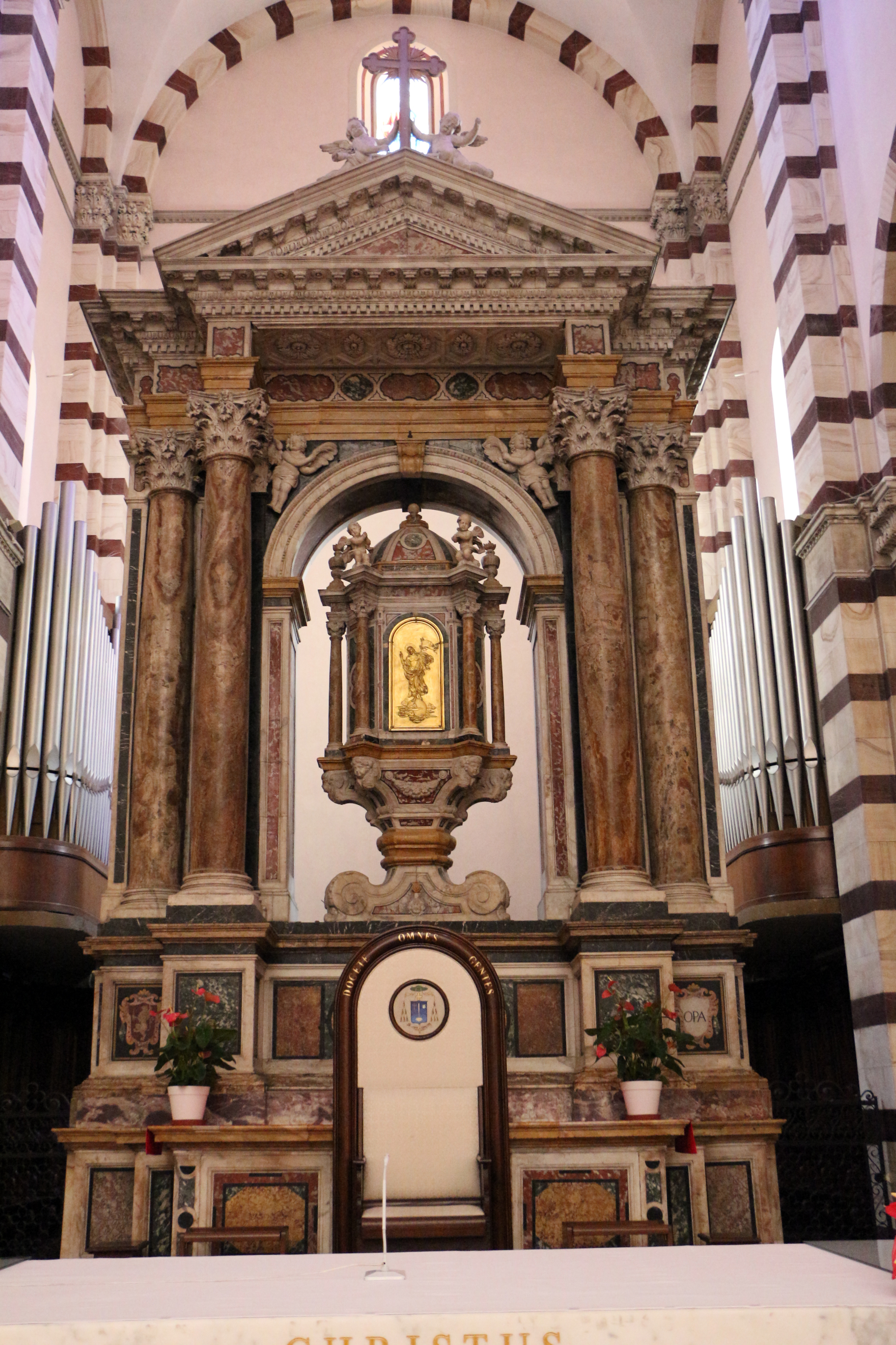 Duomo (Grosseto) - Interior